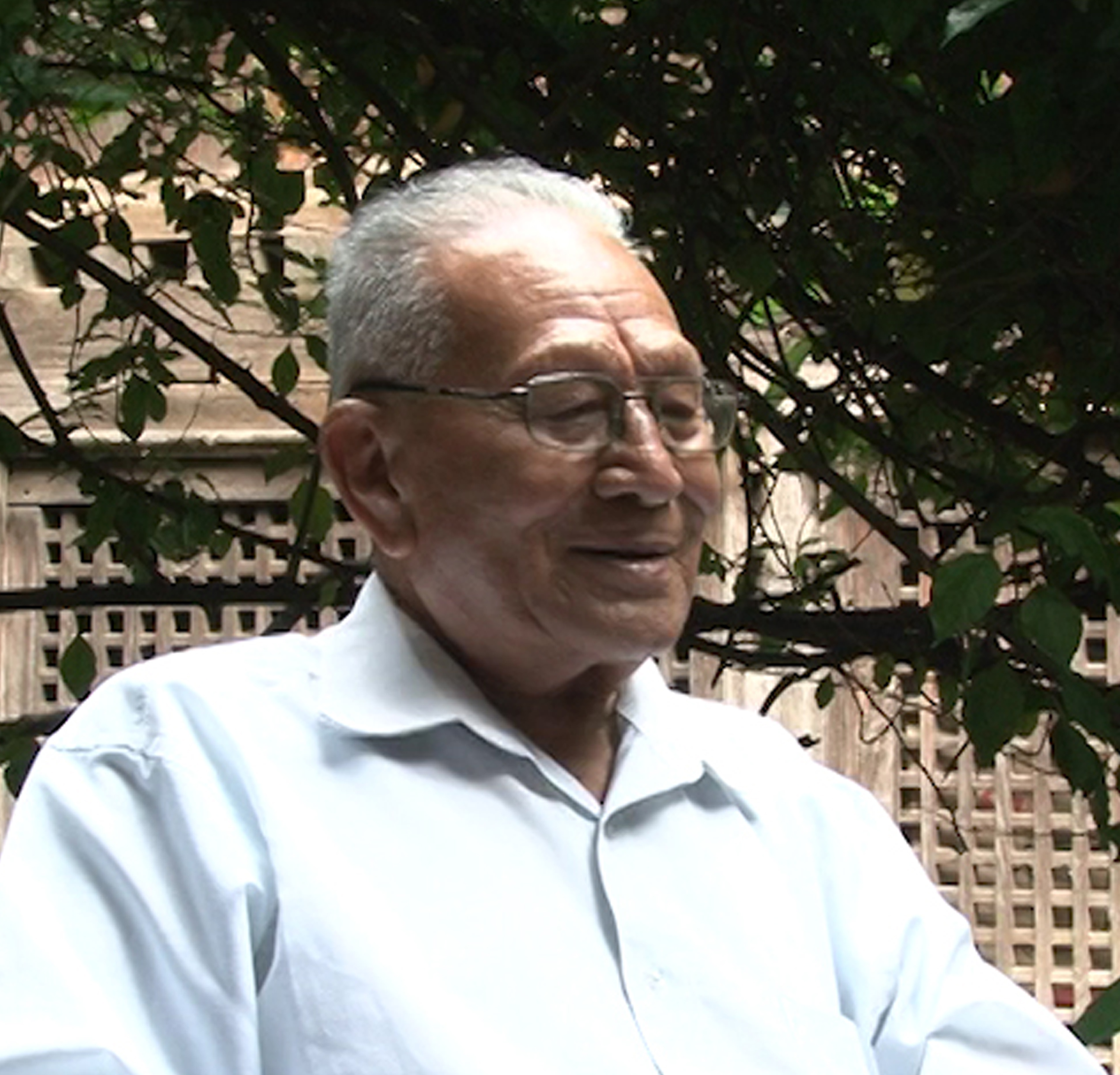 A communist politician from Nepal.